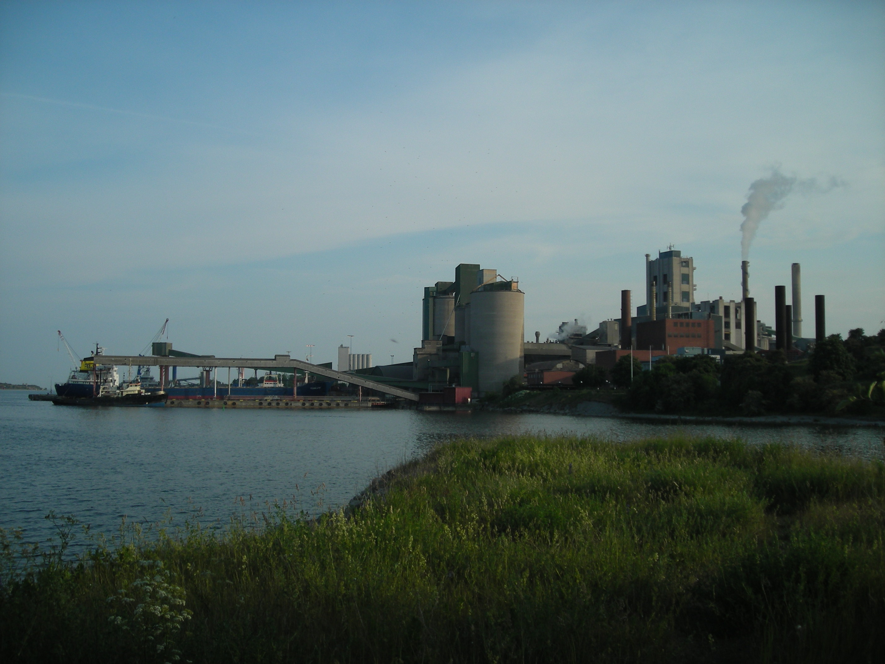 Cementa in Slite, Gotland